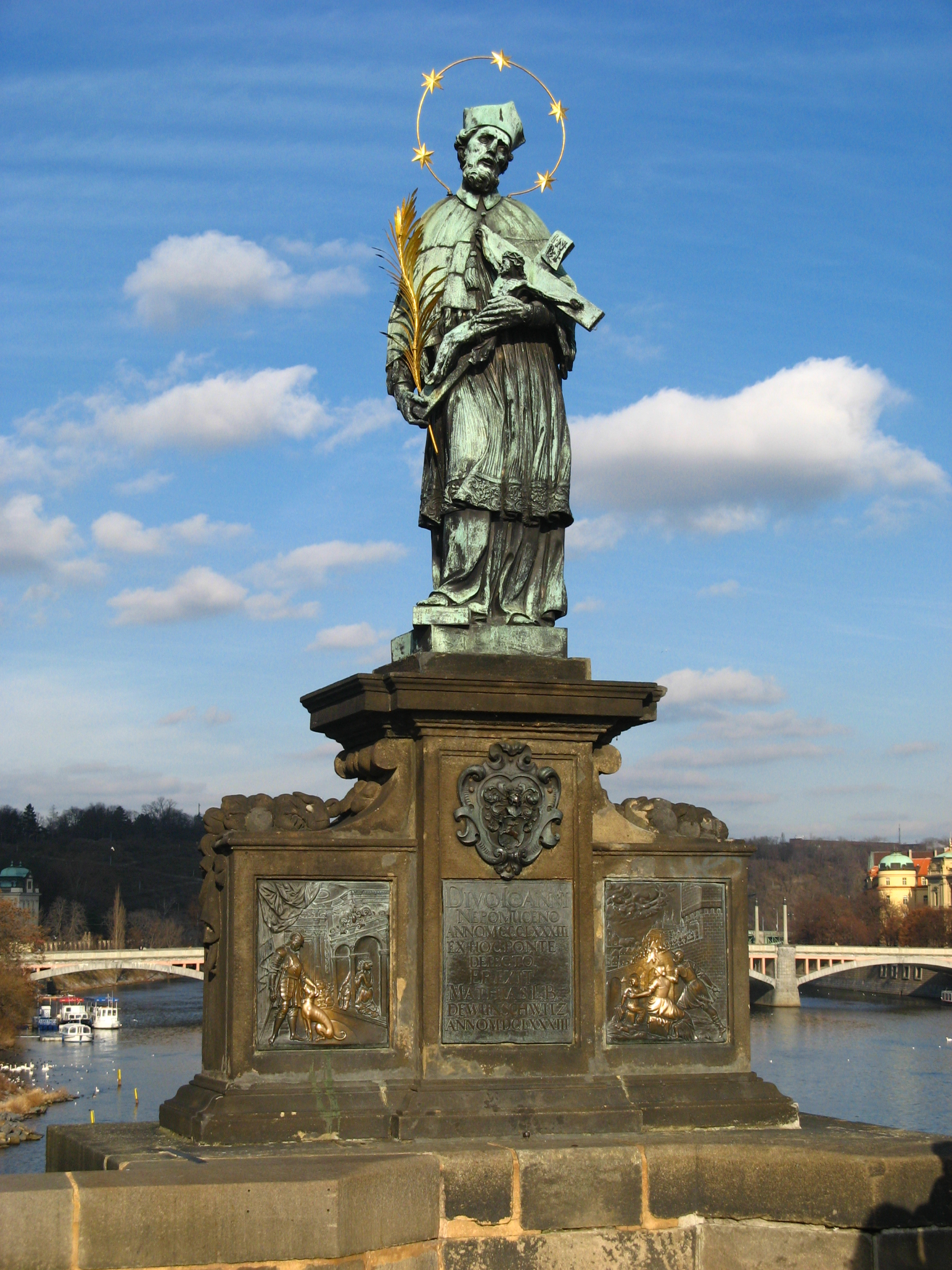 John of Nepomuk - a statue on the Charles Bridge in Prague.